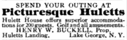 A 1903 vacation advertisement for Huletts Landing, New York.